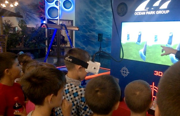 Virtual Reality Test